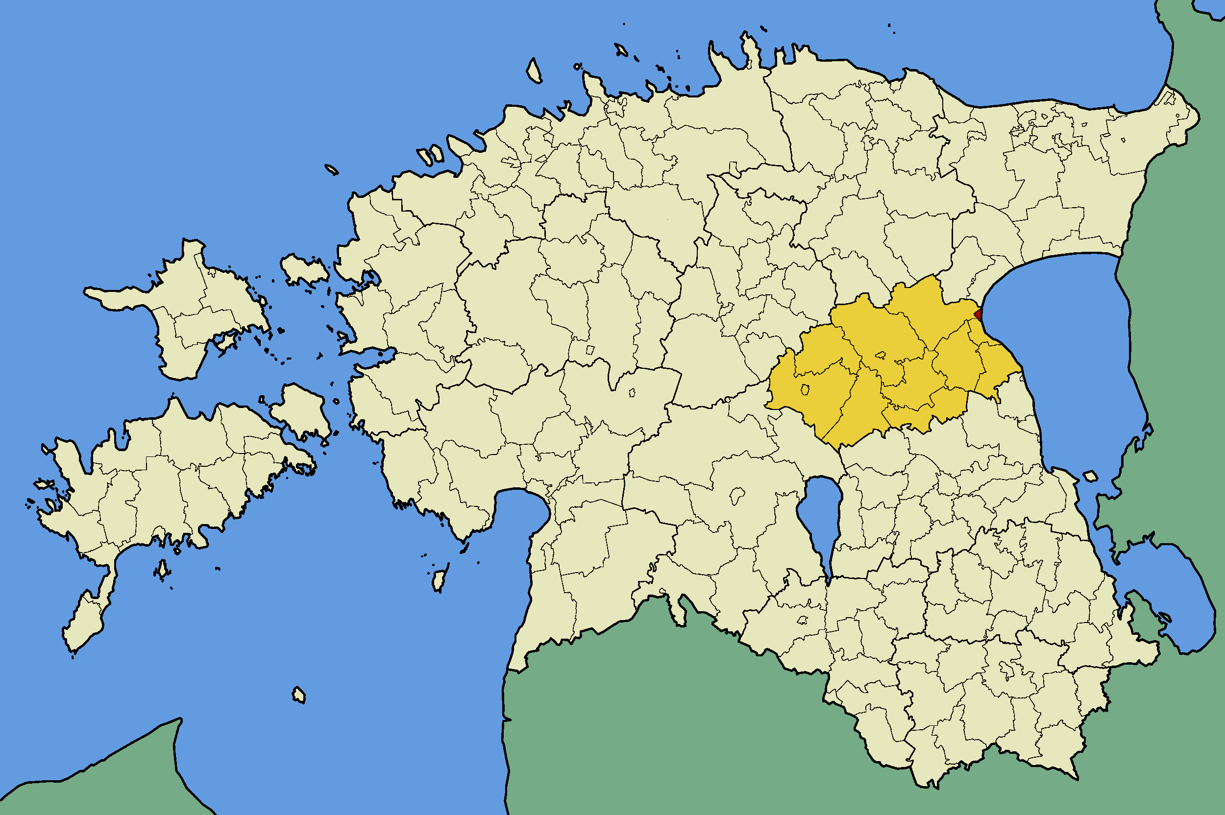 Map of Estonia with borders of municipalities (parishes). Jõgeva county and Mustvee town municipality emphasized.